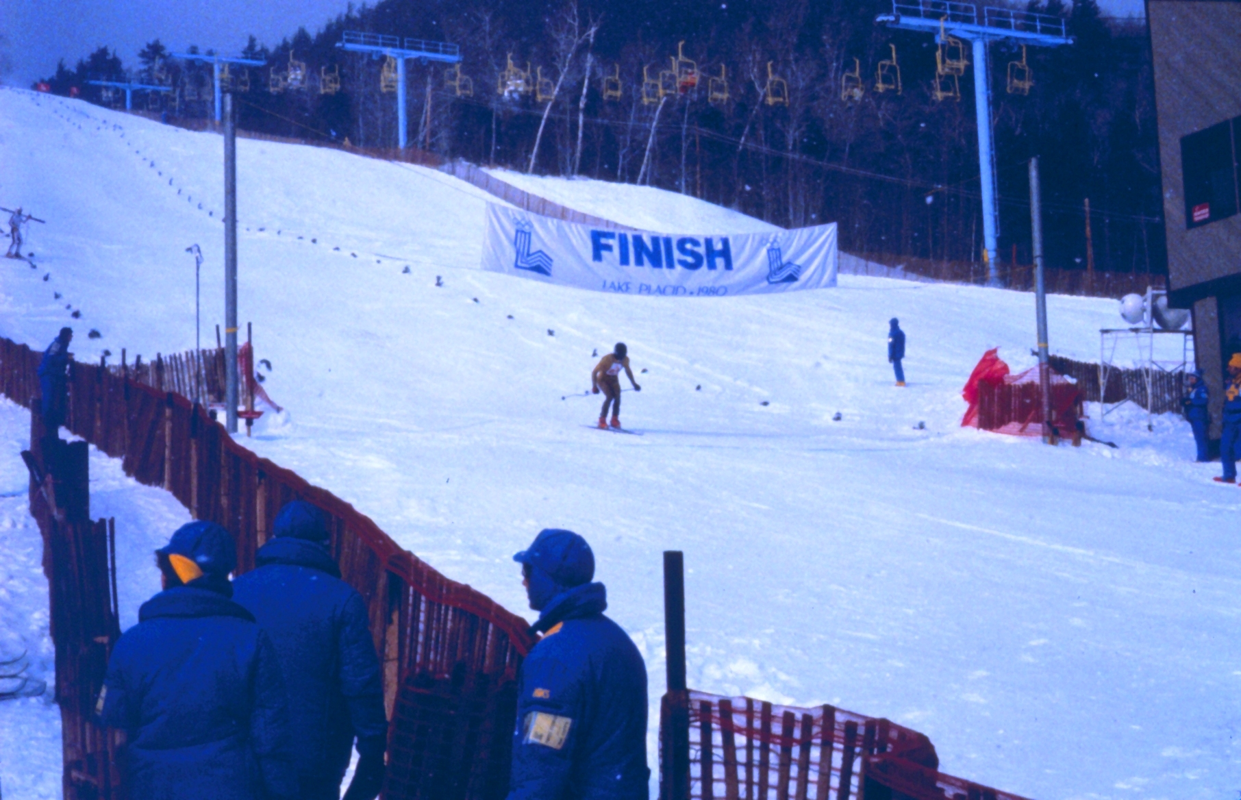 Alpine skiing at the 1980 Winter Olympics at the 1980 Winter Olympics.